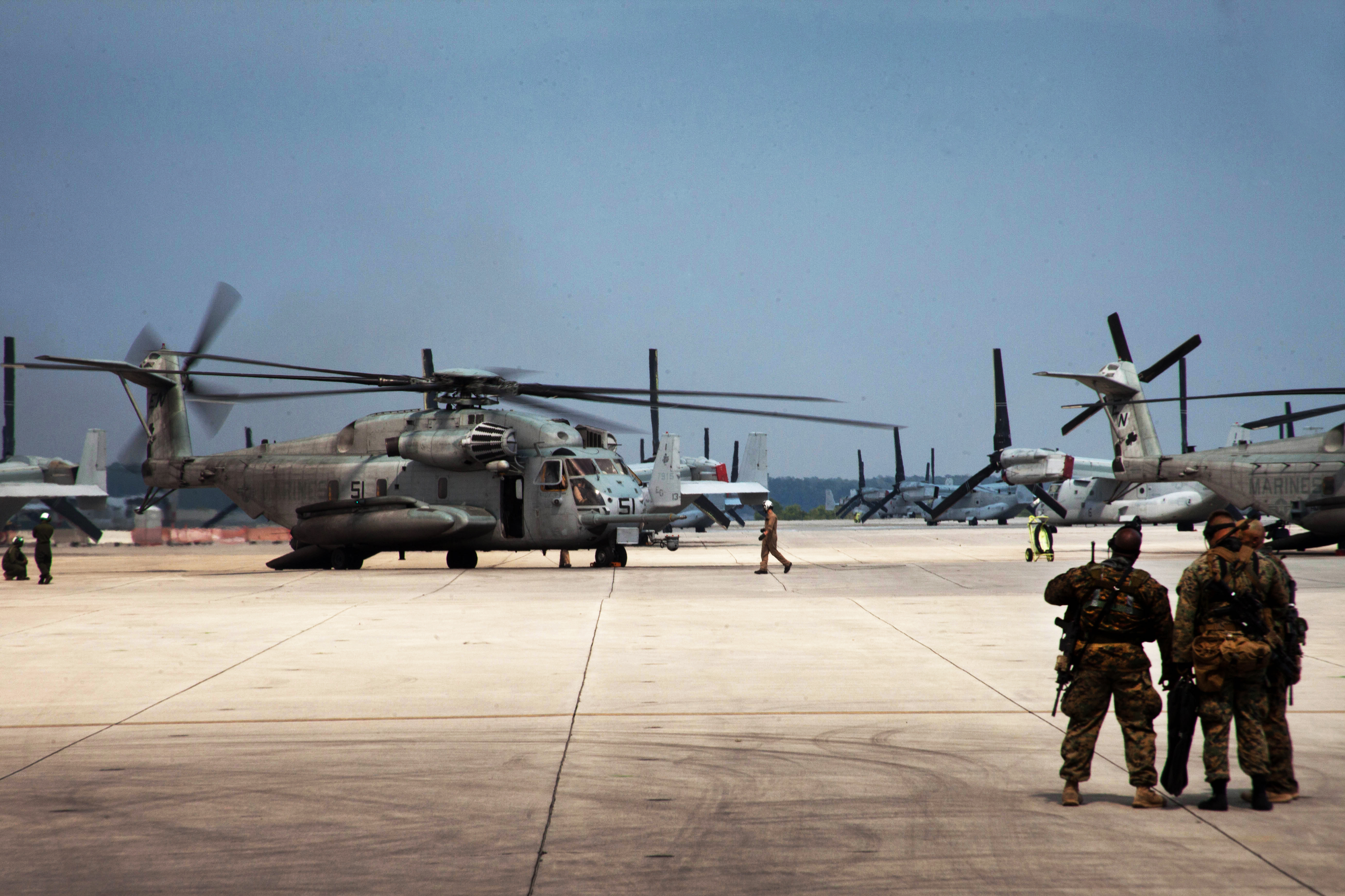 Marines discuss final preparations before boarding a CH-53E Super Stallion helicopter on the flightline during Operation Mailed Fist on Marine Corps Air Station New River, N.C., June 18, 2012.